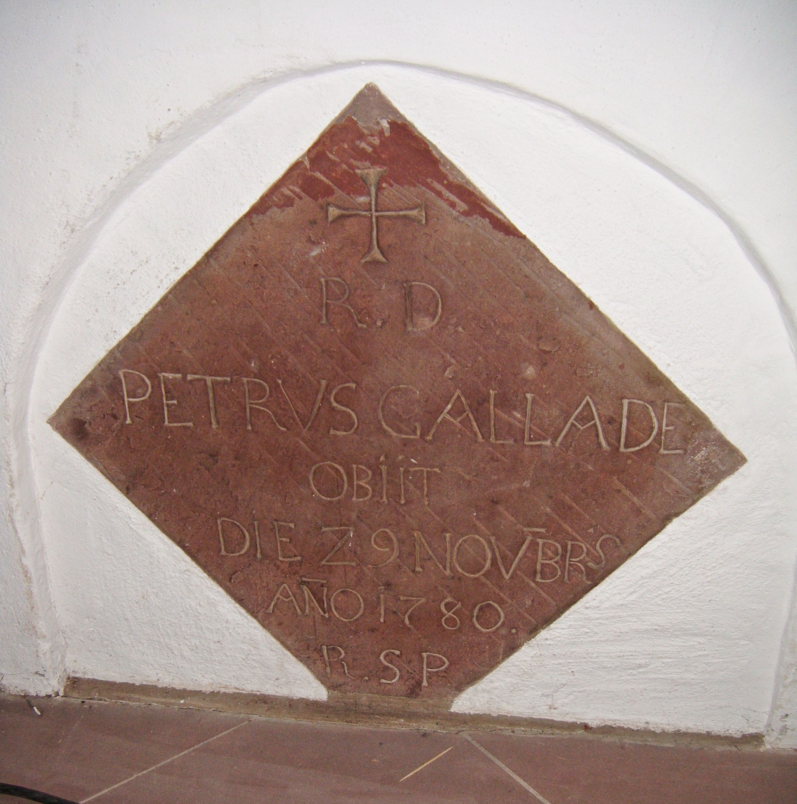 Peter Gallade, Jesuit, (1708-1780), Grab Jesuitenkirche Heidelberg